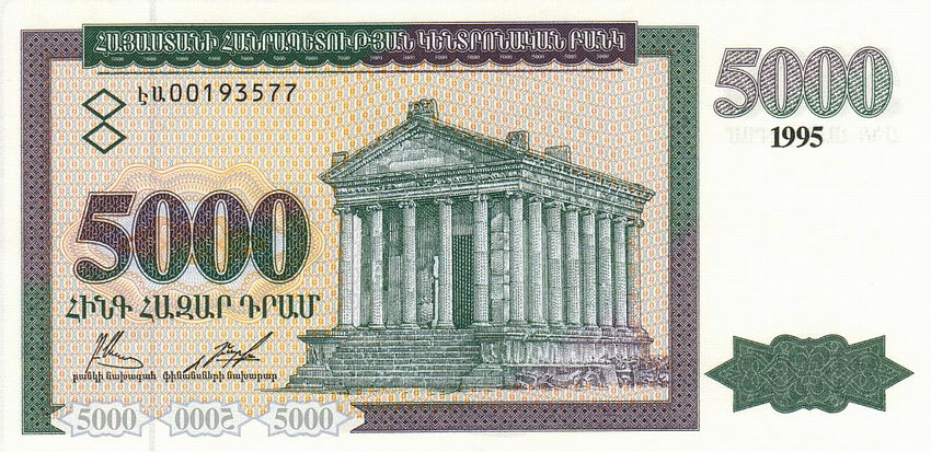 5000 dram 1995